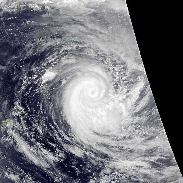 Tropical Cyclone Val on December 9, 1991